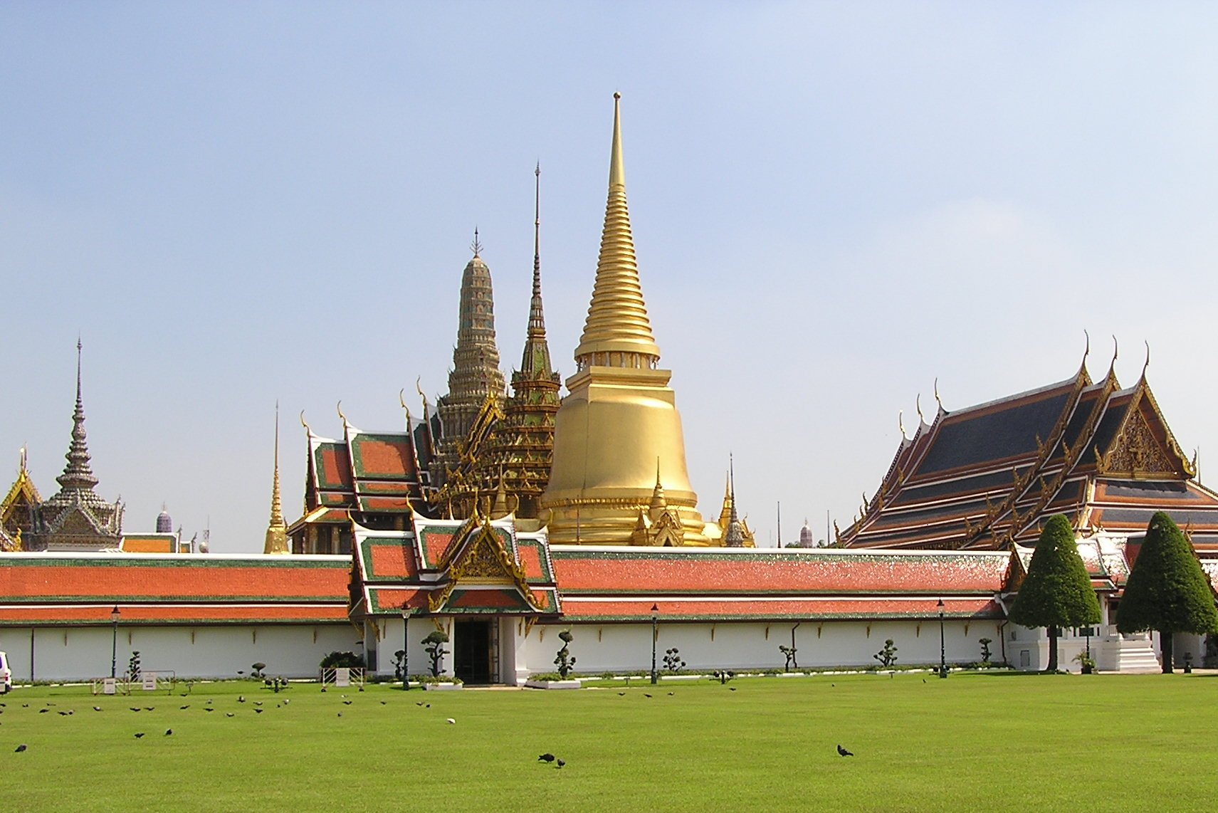 Grand Palace with Temple of the Emerald Buddha (Wat Phra Kaew) in Bangkok, Thailand.